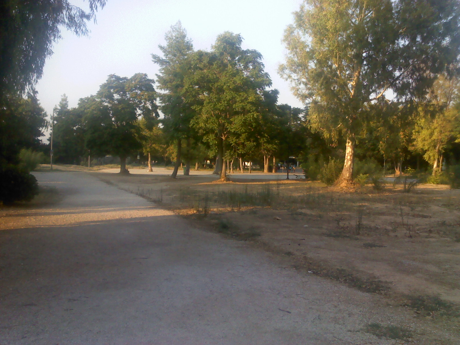 Park Iroon Tavros